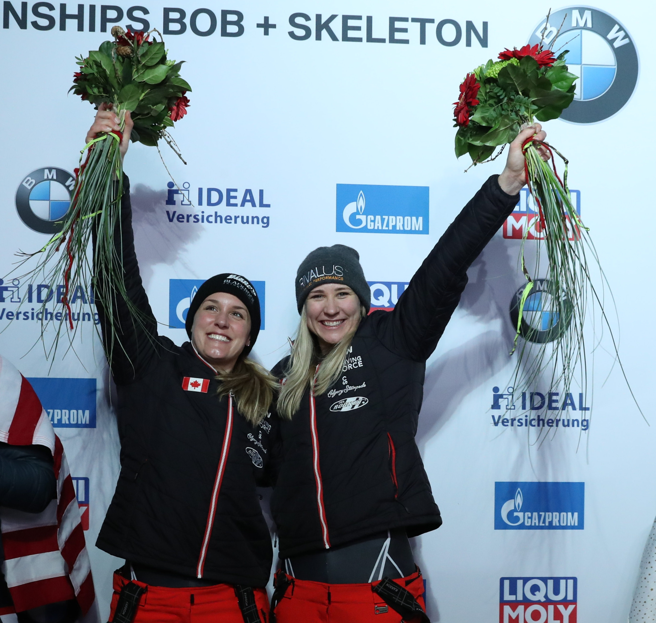 Flower Ceremony at the 2-woman bobsleigh at the Bobsleigh and Skeleton World Championships 2020 in Altenberg